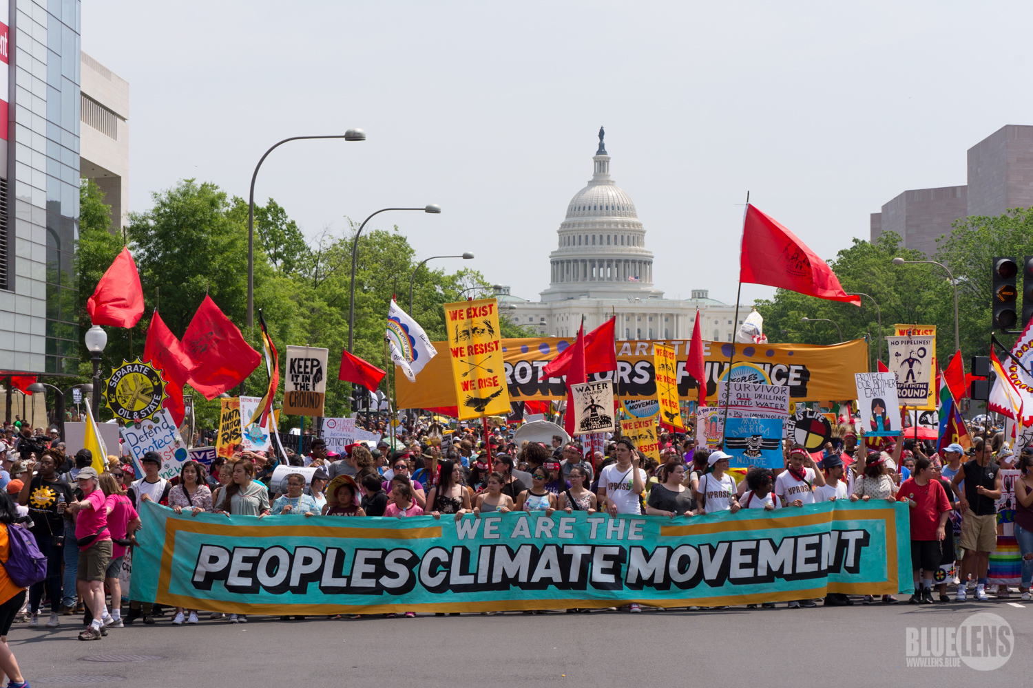 Photos taken at the 2017 DC Climate March on April 29, 2017. #RESIST